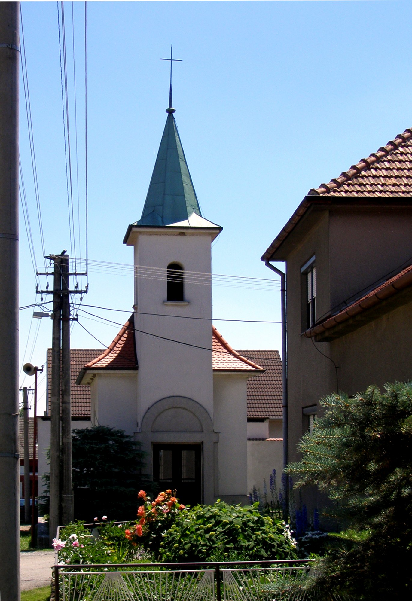 Číměř. The Most Sacred Heart of Our Lord chapel